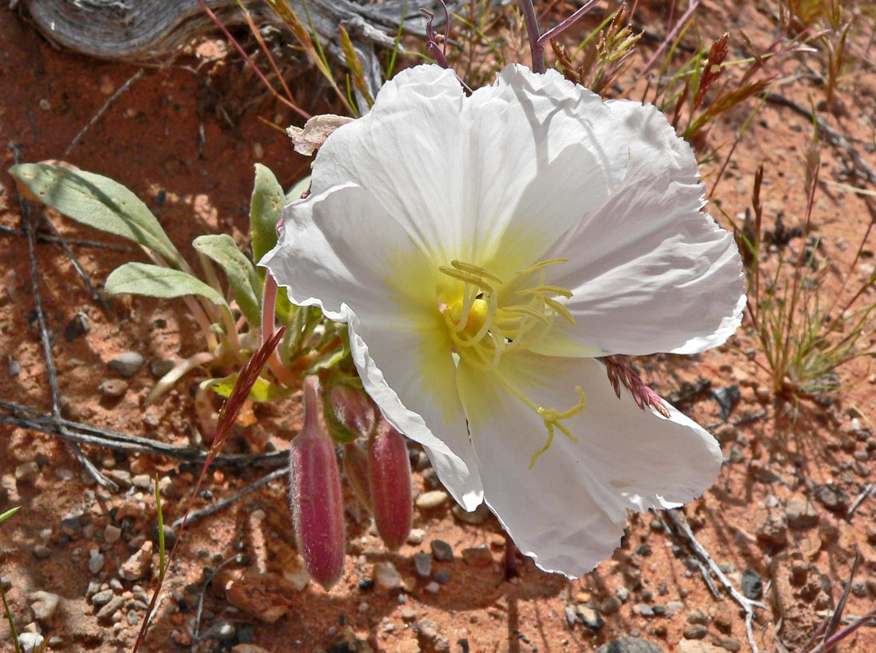 Photo of Oenothera deltoides in Red Rock Canyon, Nevada